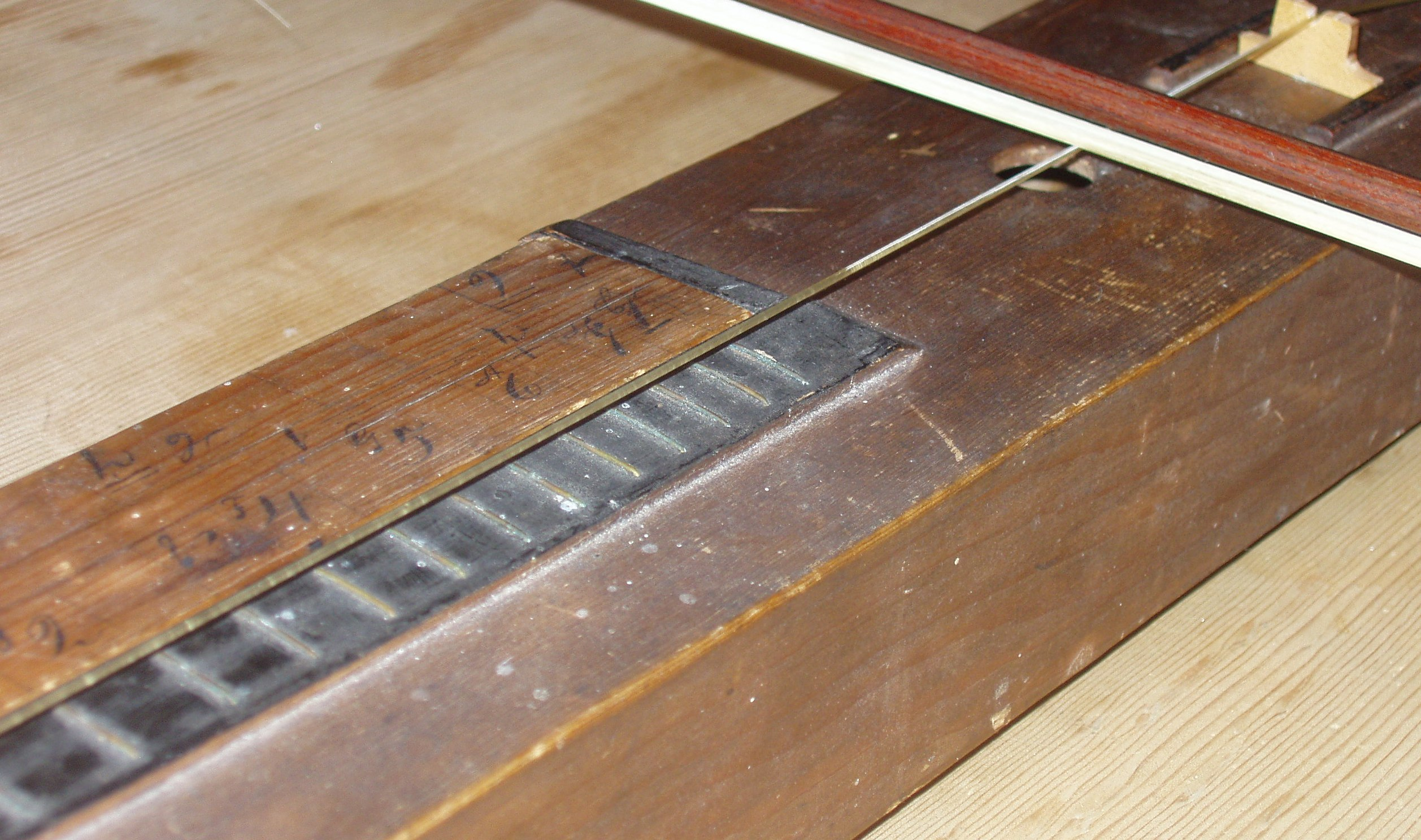 Psalmodicon from a farm on the island Skorpa in Helgeland, Norway.